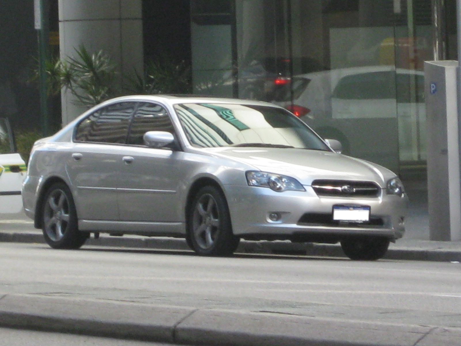 Subaru Liberty 2.5i (BL9) sedan, photographed in Perth, Western Australia.